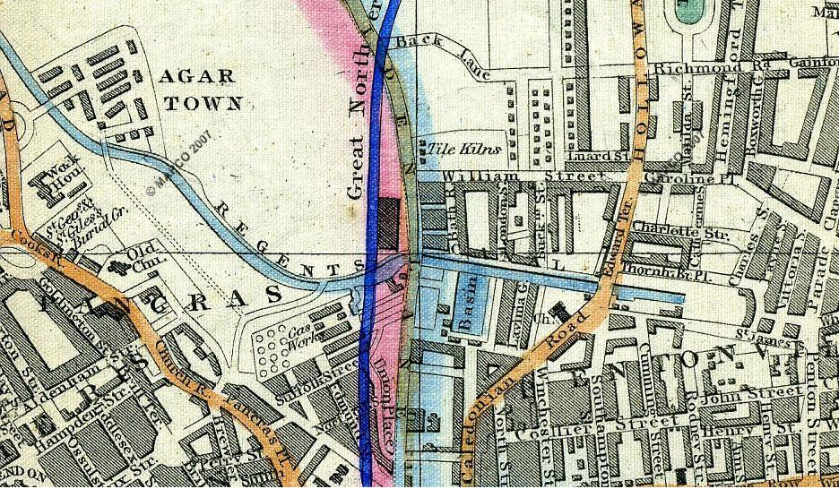 Map Of London 1851 - Cross's London Guide, detail, showing Agar Town, Somers Town and Pentonville, London.